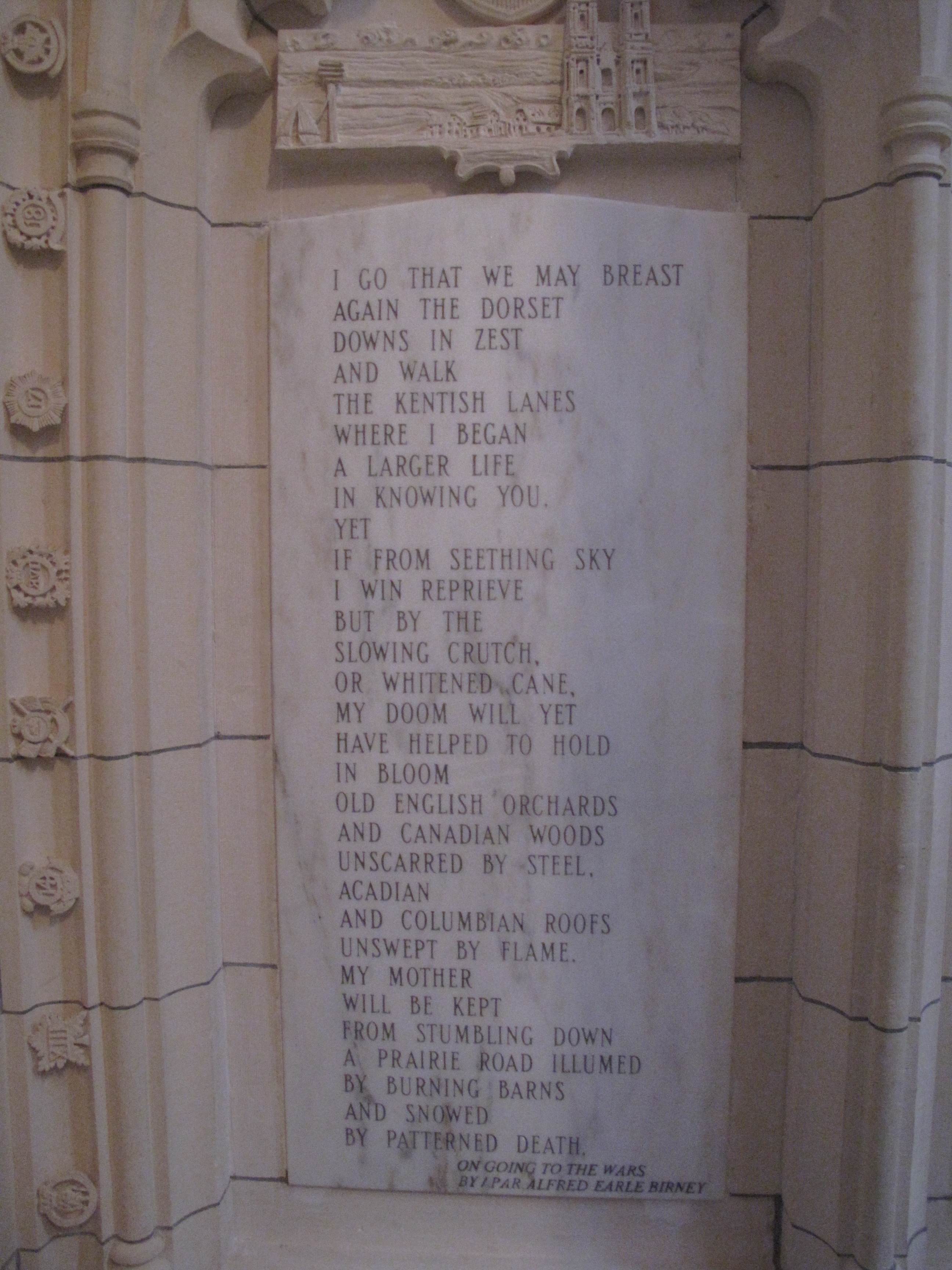 "On Going to the Wars" by Earle Birney, from the Memorial Room in the Peace Tower, Ottawa, Canada